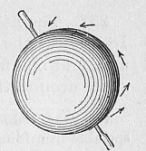 William Gilbert's terrella from Practical Physics, 1914, pub. Macmillan and Company Slika:Terrella3452.png